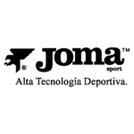 Logo of Spanish sports company Joma.